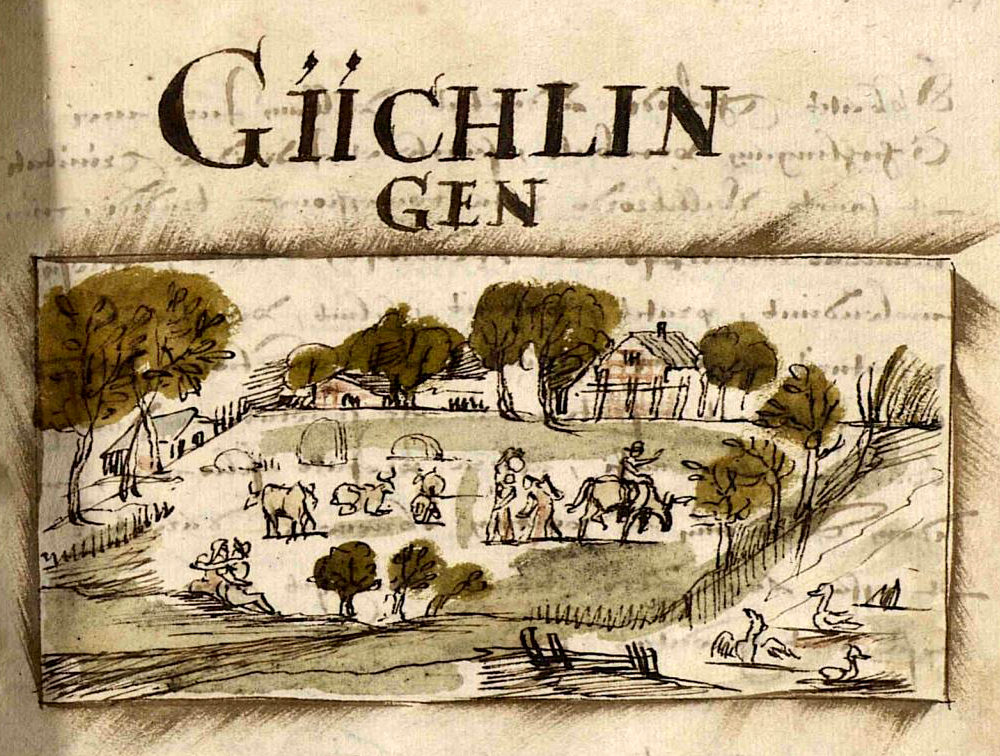 "Giichlingen" (today: Geichlingen, Eifelkreis Bitburg-Prüm) by Jean Bertels, ~1597